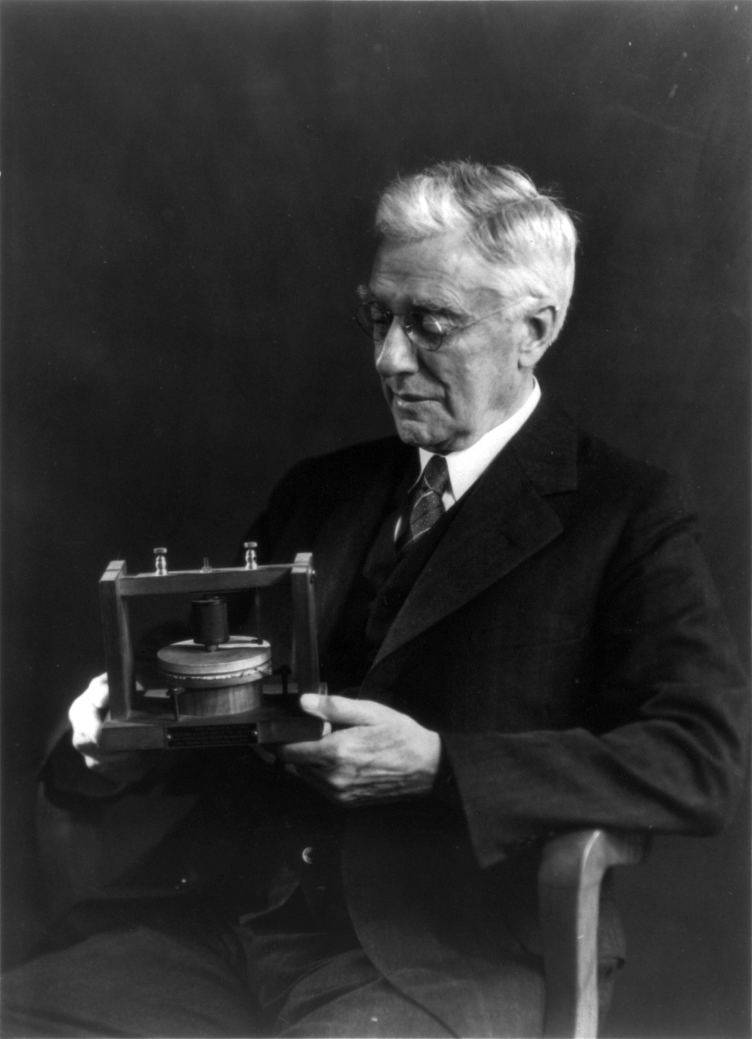 Portrait of Thomas A. Watson, half length, seated, holding model of Alexander Graham Bell's first telephone, facing left.